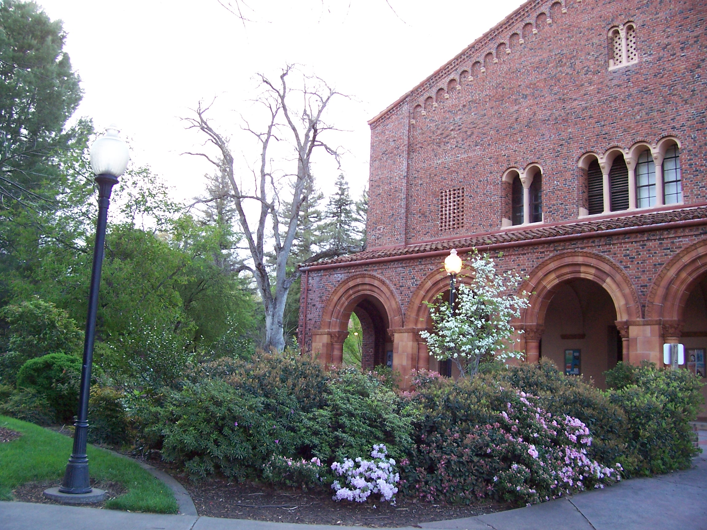 Chico state campus.